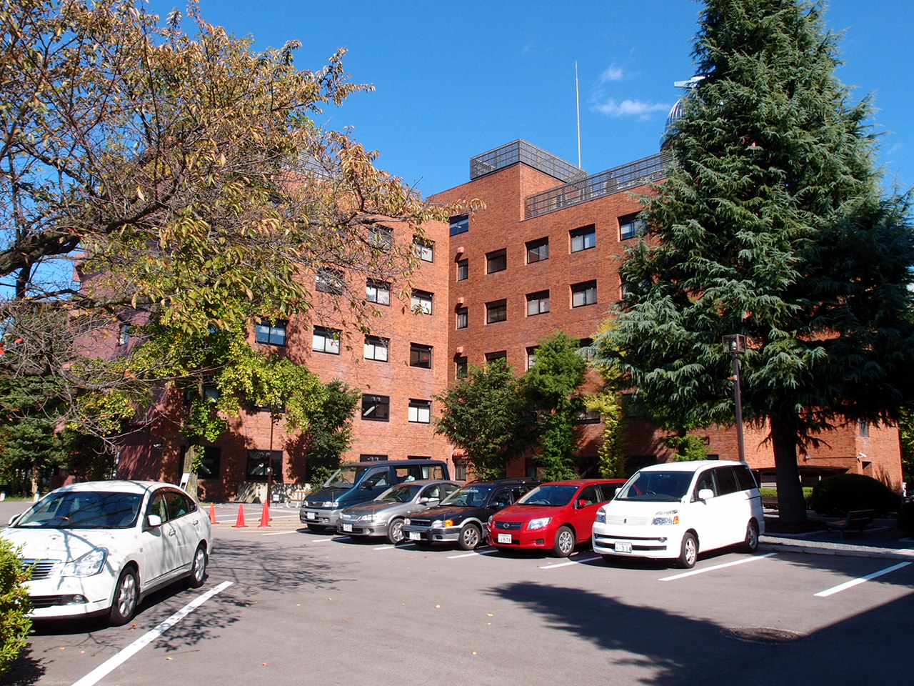 Graduate School of Science Bldg. No.4 of Kyoto University in Japan.